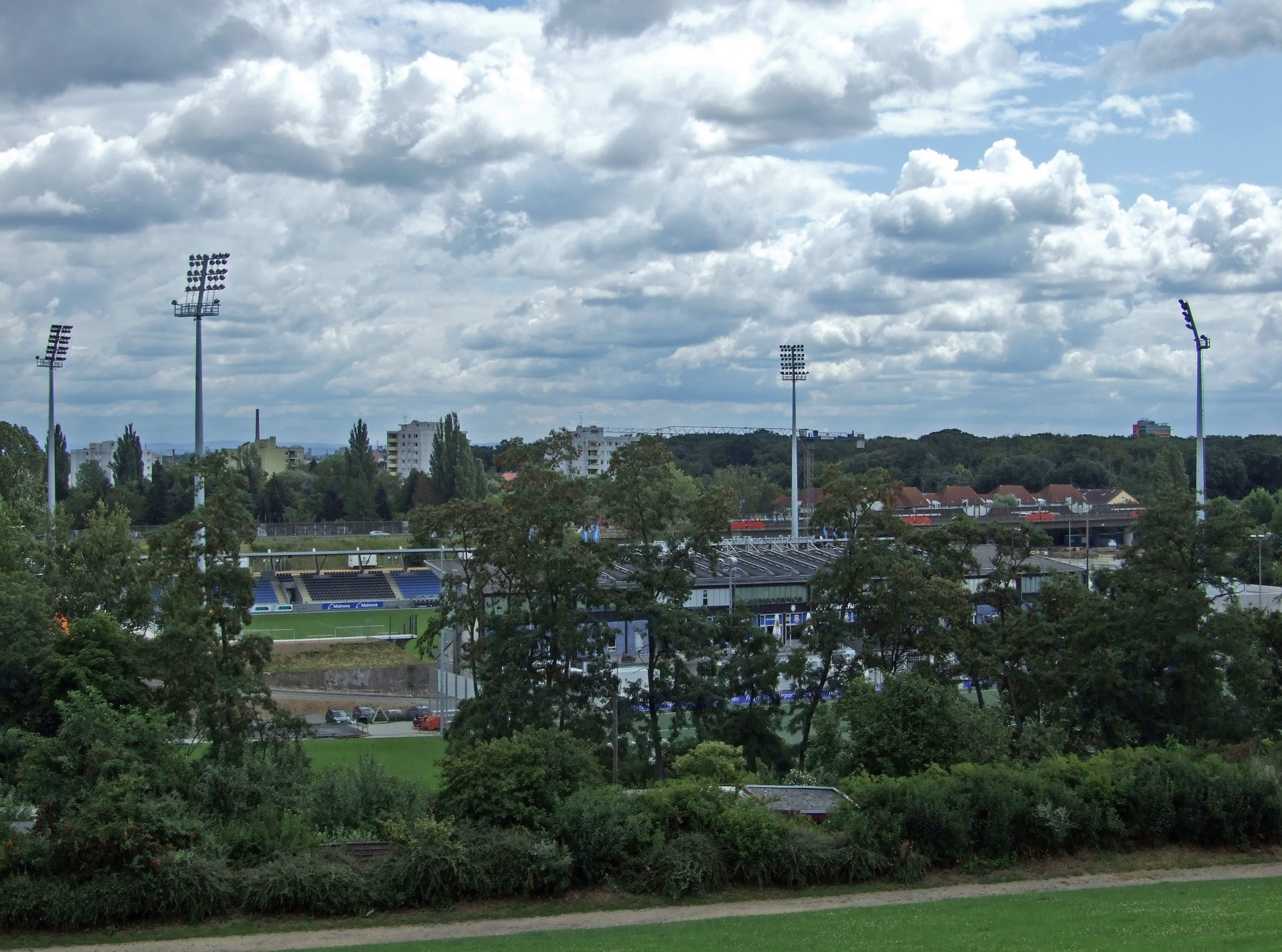 The "Volksbank Stadion" at "Bornheimer Hang" in Frankfurt am Main - Bornheim. It is the home football-stadium of "FSV Frankfurt".